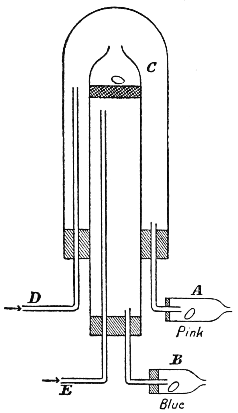 Testing Avogadro law pertaining to gas molecules